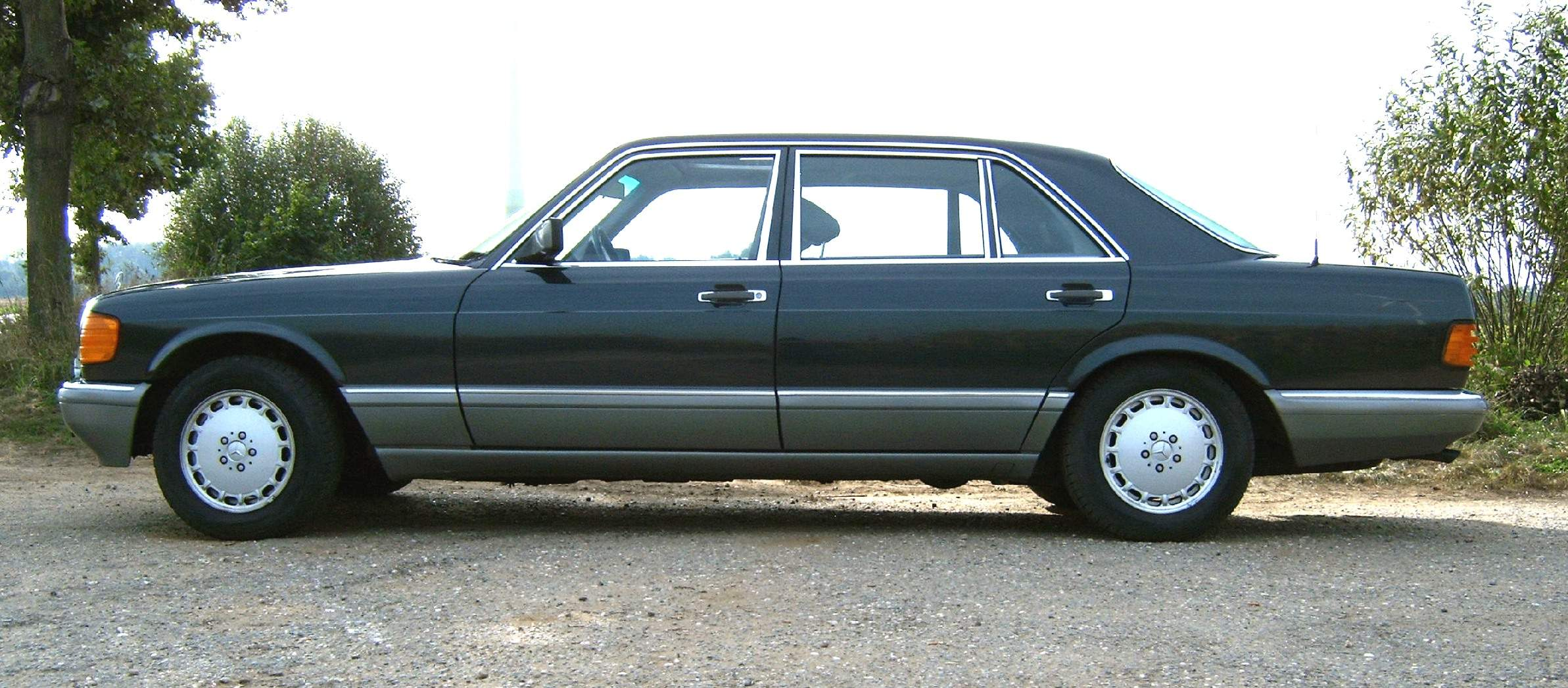 1979-1991 Mercedes-Benz 500 SEL (W126)